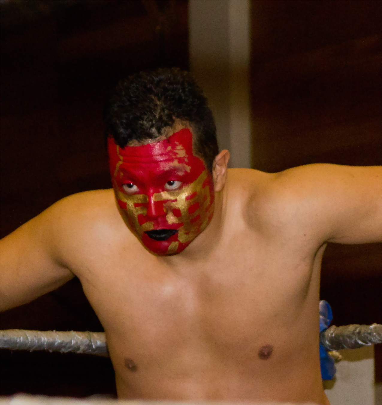 Wrestler Kiyoshi (real name Akira Kawabata) in the ring at a Maximum Pro Wrestling in Collingwood, Ontario